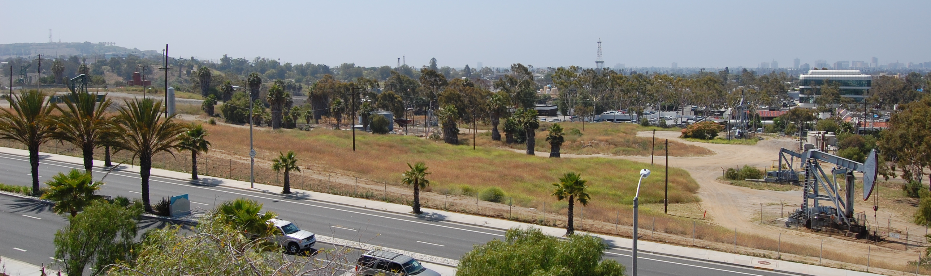 Panorama of a section of the Long Beach Oil Field near Long Beach Memorial Hospital.